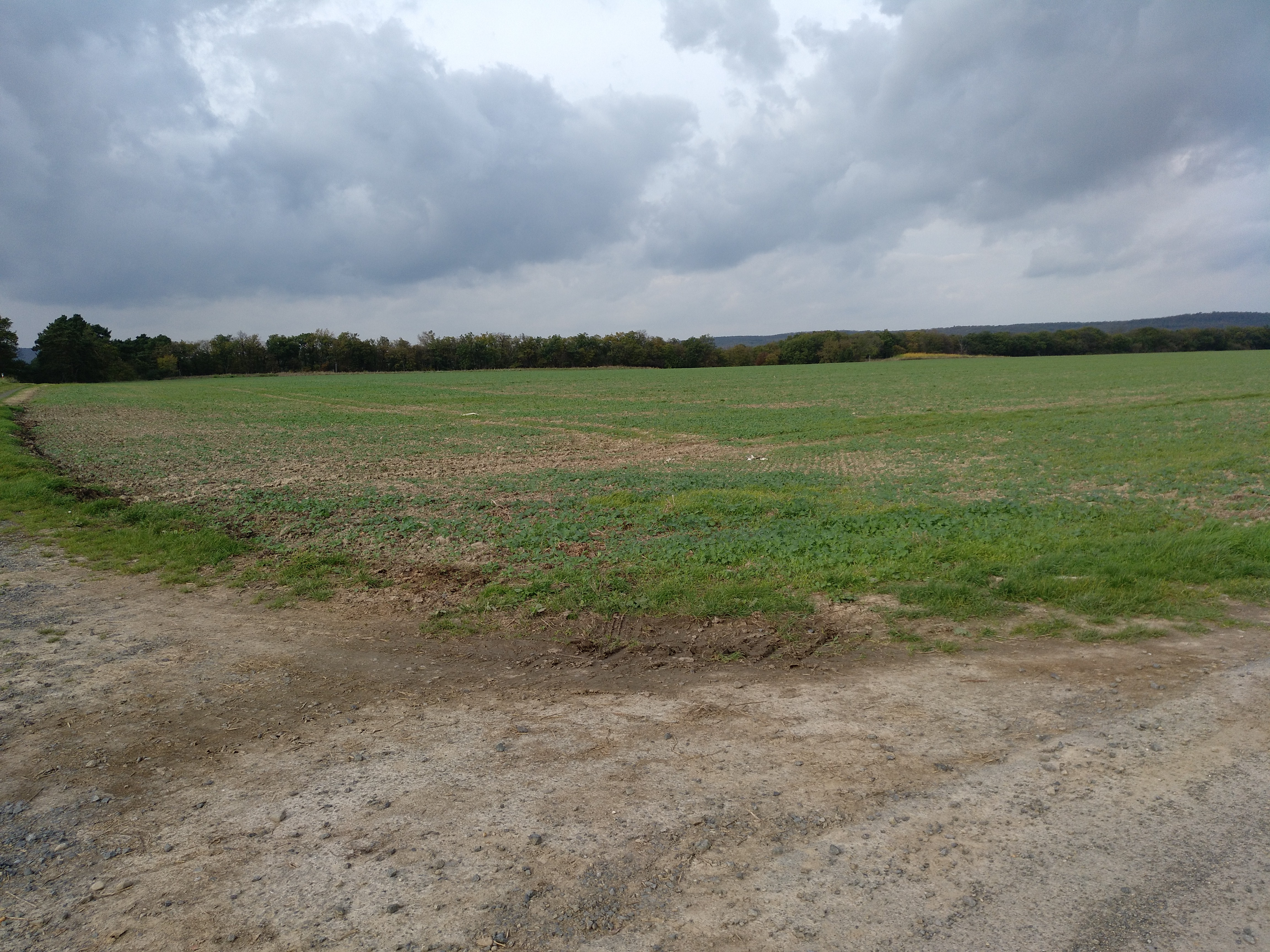 The Wiederöder Berge between Harlingerode and Vienenburg in Lower Saxony, Germany, Position of the lost village Wenderode.